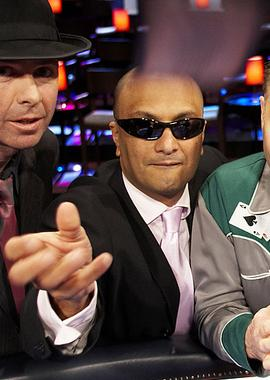 Akmal Saleh flicking a playing card toward the camera.